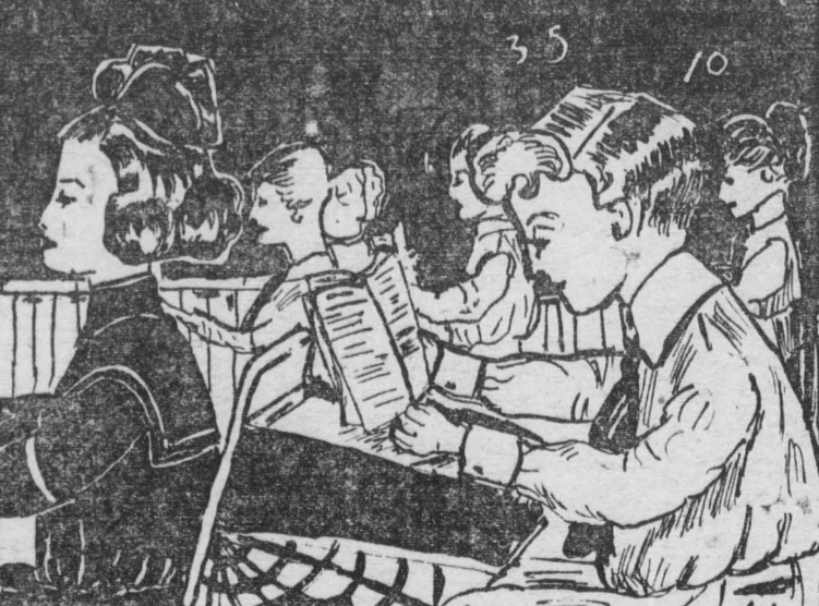 This is a drawing by student Edna Schye of Watts, of her fellow pupils inside a schoolroom, at their desks, with a chalked blackboard beyond them, 1909.